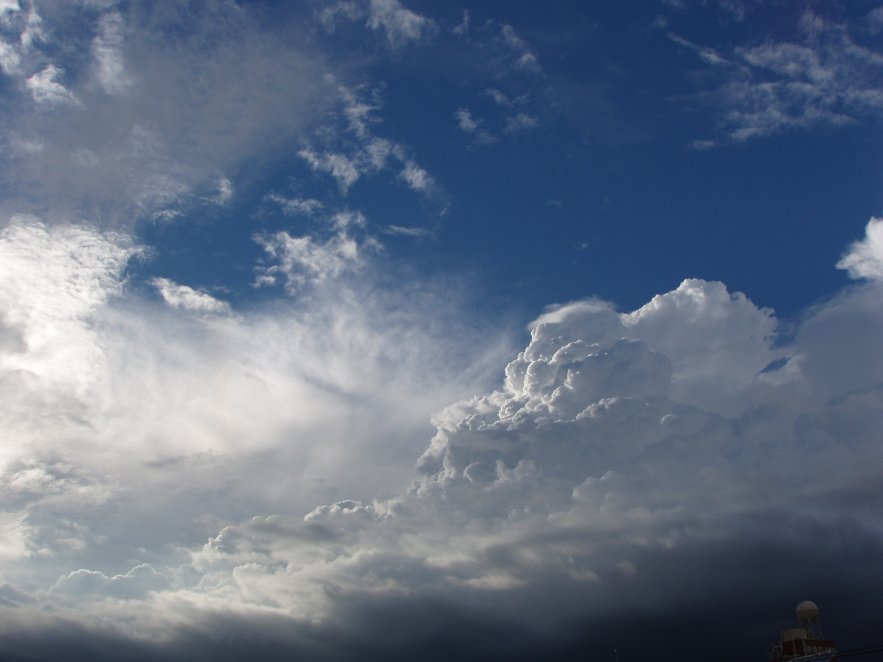 I looked at the beautiful cumulonimbus in the Japanese sky.